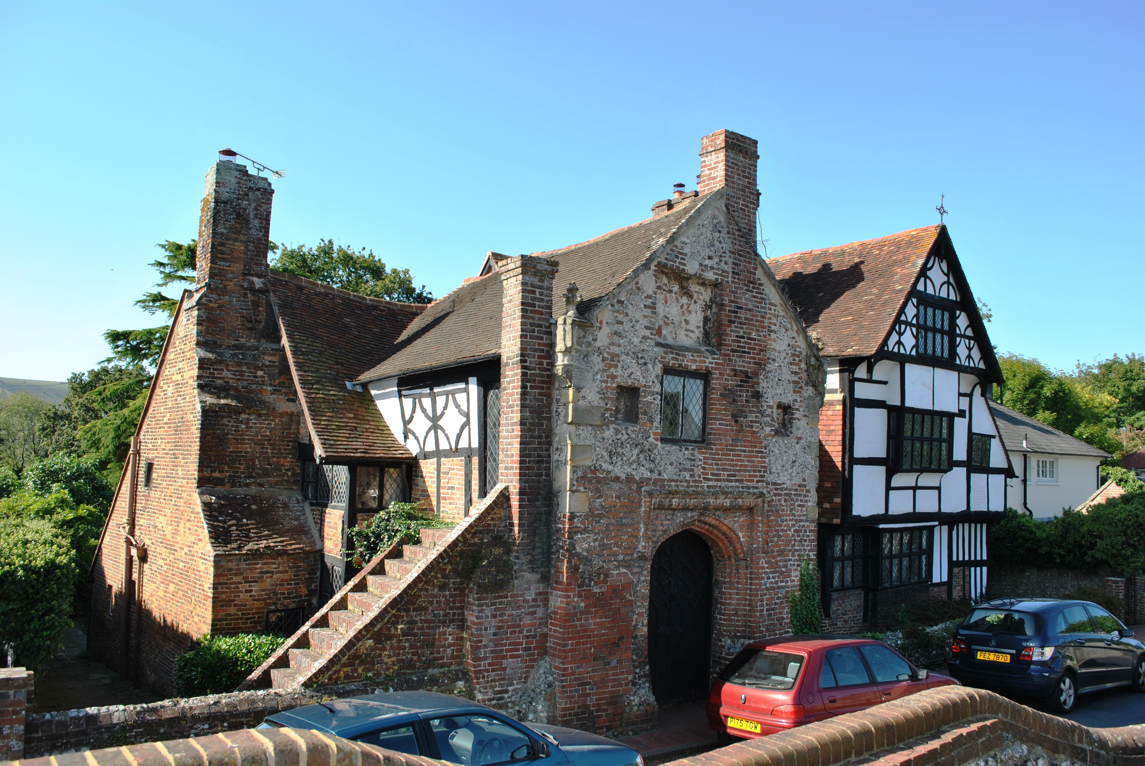 Ditchling